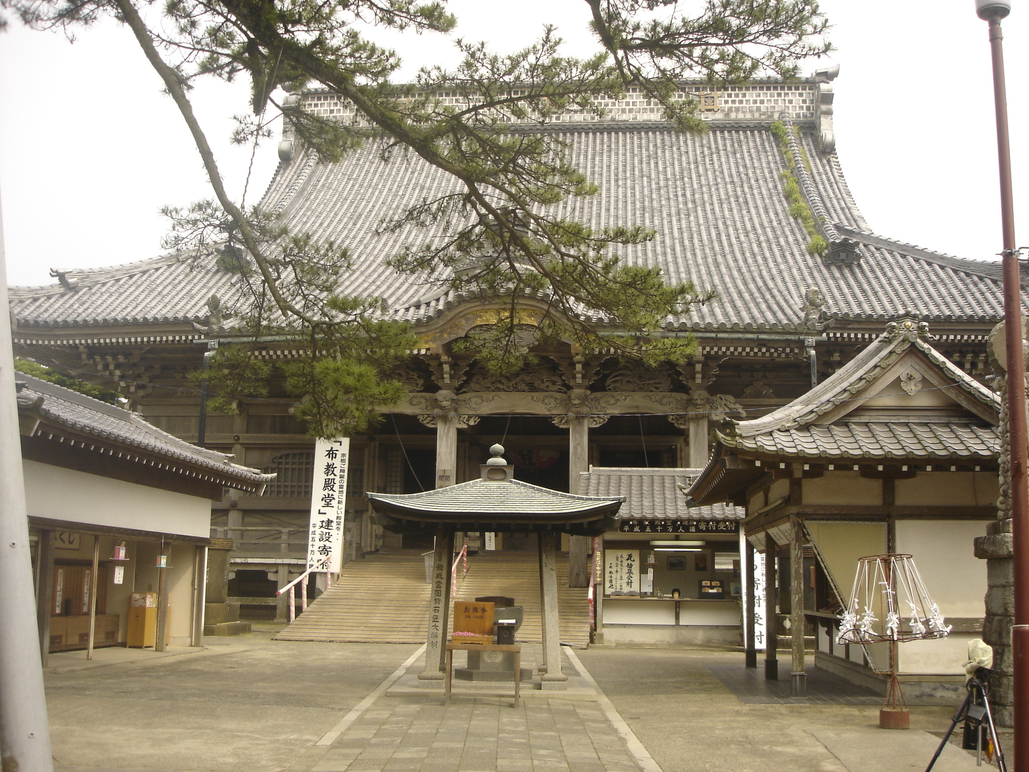 Soshi-dō (founder's hall) of Tanjō-ji temple in Kamogawa, Chiba Prefecture